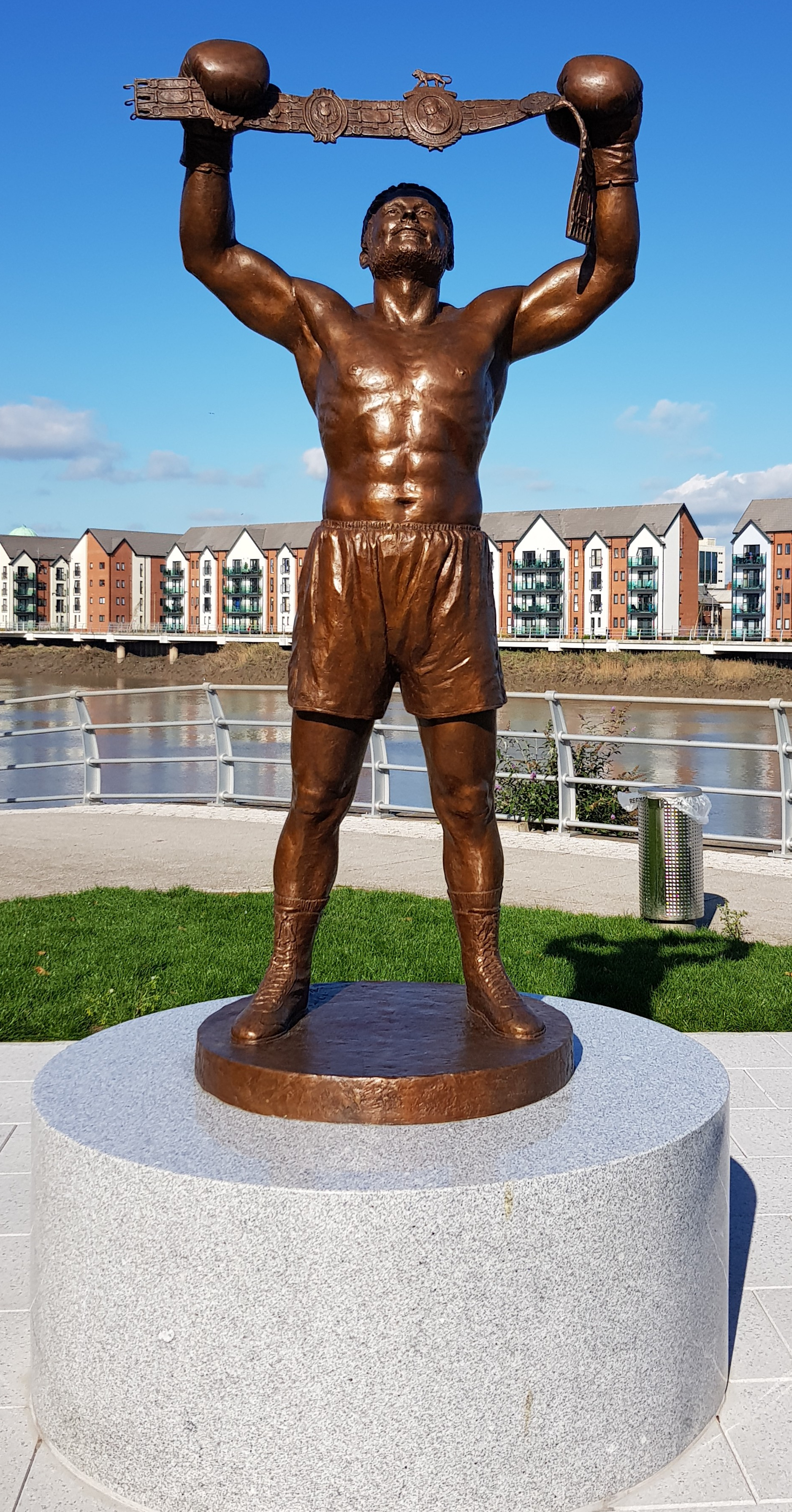 Sculpture of David 'Bomber' Pearce by Laury Dizengremel, City of Newport